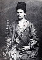 Edward Granville Browne